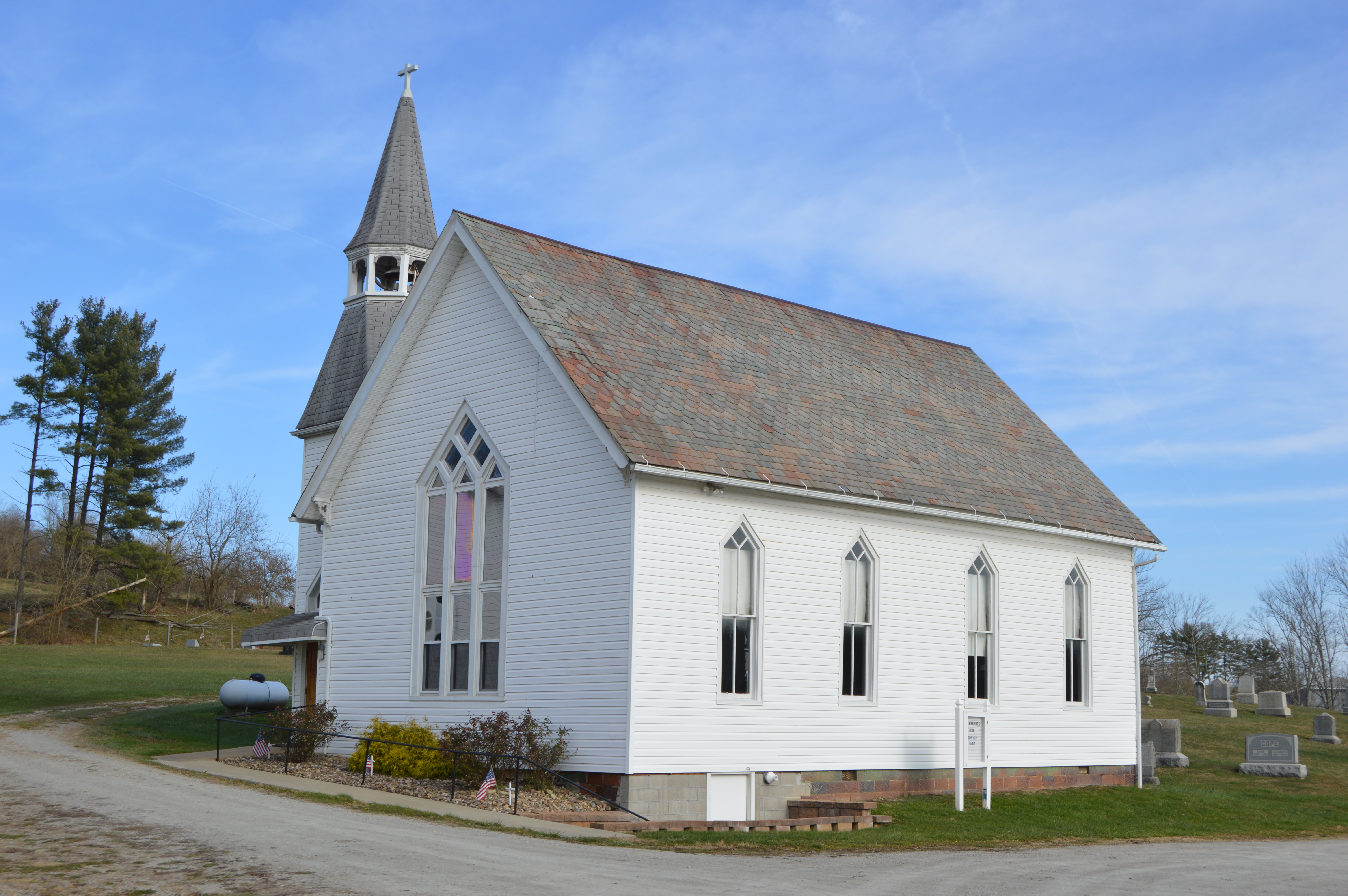 Front and southwestern side of the Hiramsburg United Methodist Church, located on State Route 340 at Hiramsburg in Noble Township, Noble County, Ohio, United States.